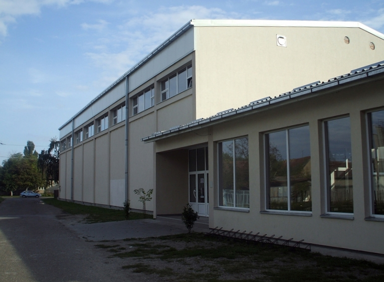 New sport hall